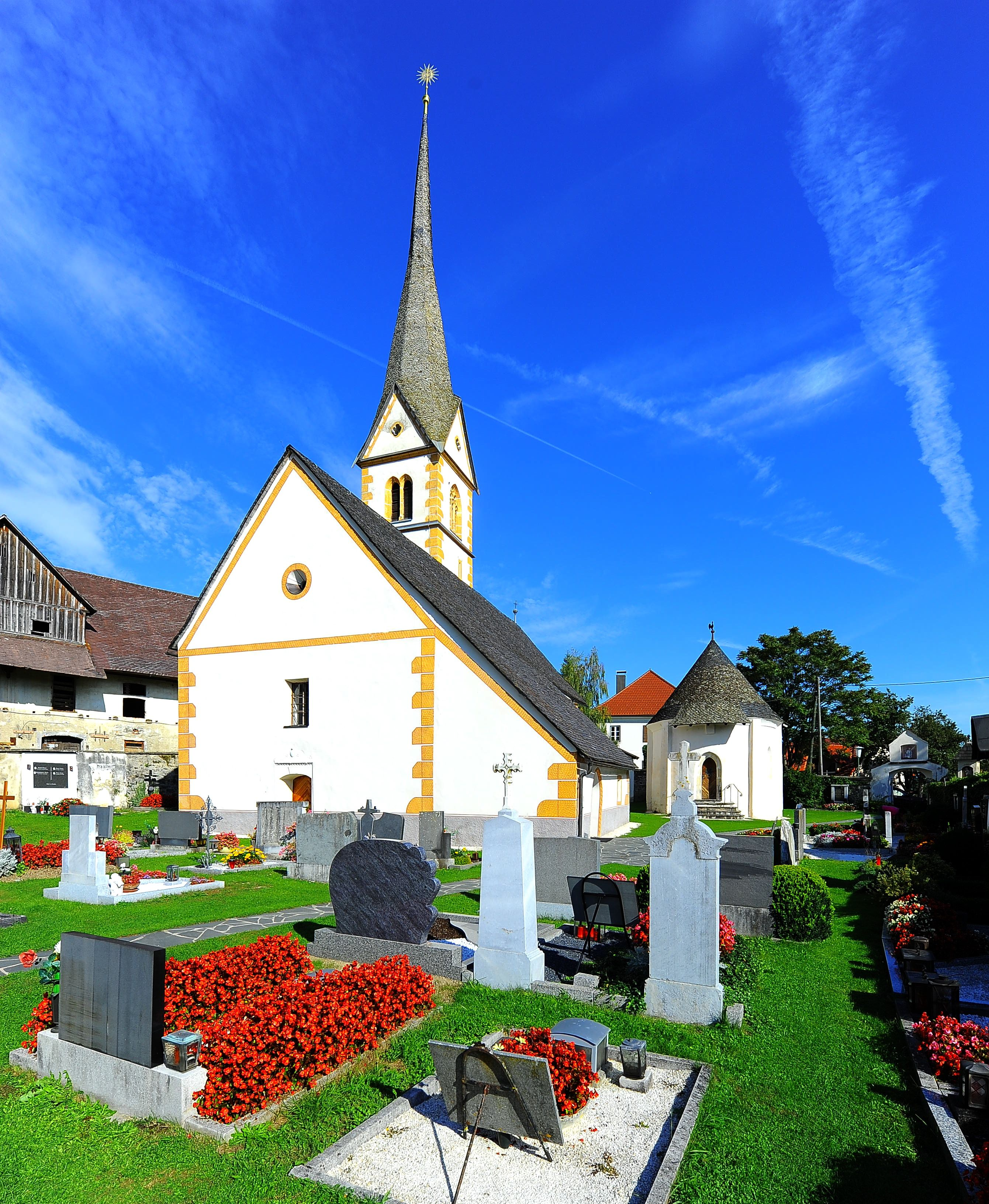 Parish church Saint Stephen at Sankt Stefan, municipality Voelkermarkt, district Voelkermarkt, Carinthia / Austria / EU